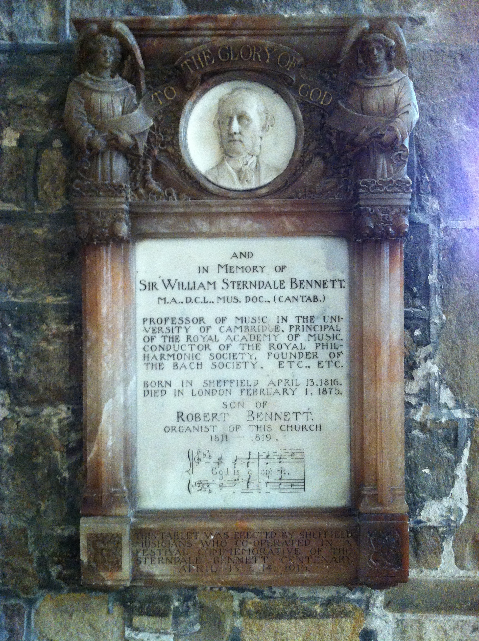 Sir William Sterndale Bennett, MA, DCL, Mus Doc, Professor of Music in the University of Cambridge, Principal of the Royal Academy of Music, Conductor of the Royal Philharmonic Society, Founder of the Bach Society, etc, etc. Born 13 April 1816, died 1 February 1875. Son of Robert Bennett, Organist of this church 1811 - 1819.